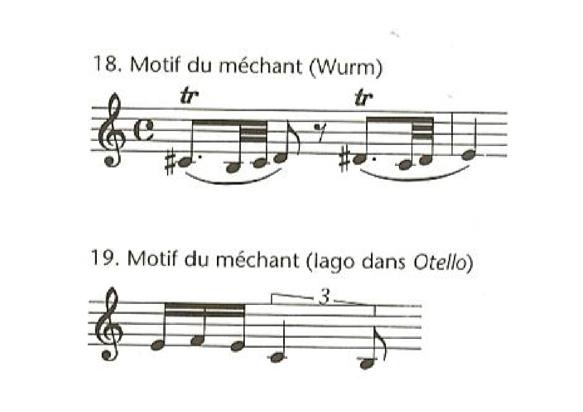 Score fragment from Giuseppe Verdi's 1849 opera Luisa Miller